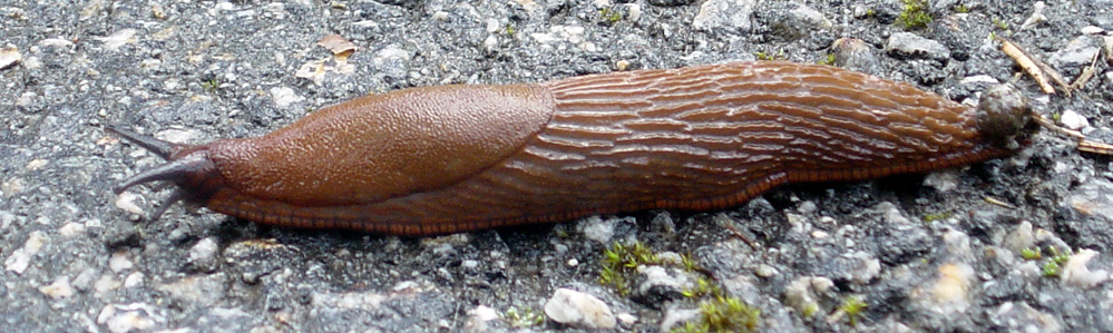 Arion lusitanicus (Norway:Iberiasnegl og Brunsnegl)